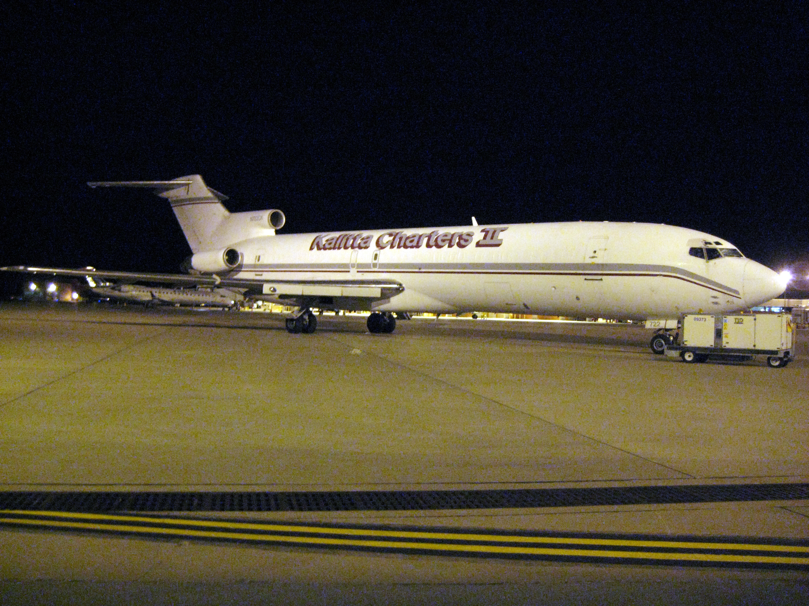 Kalitta Charters II 727-200, parked at LEX airport, Lexington, KY